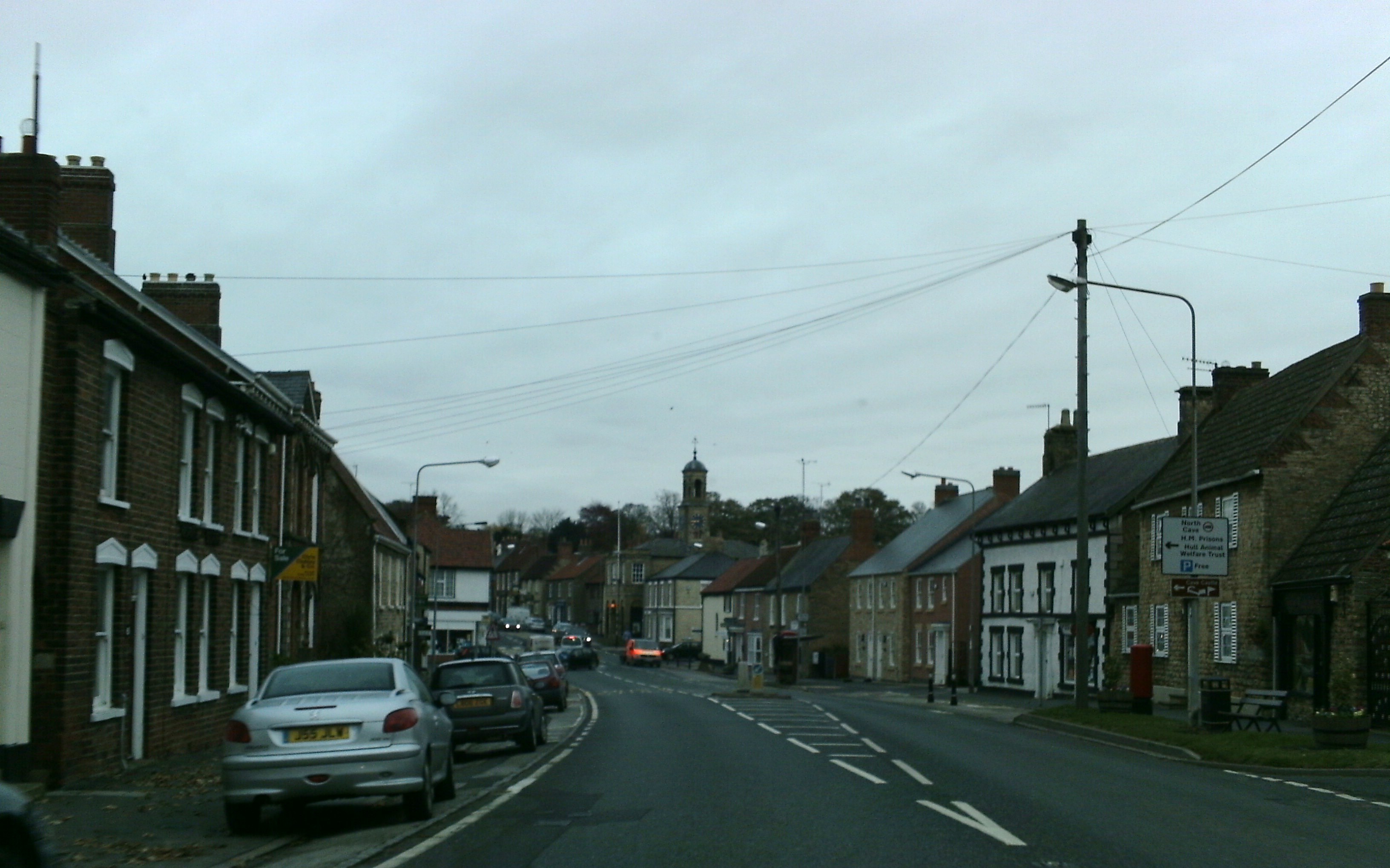 South Cave, East Riding of Yorkshire, England.